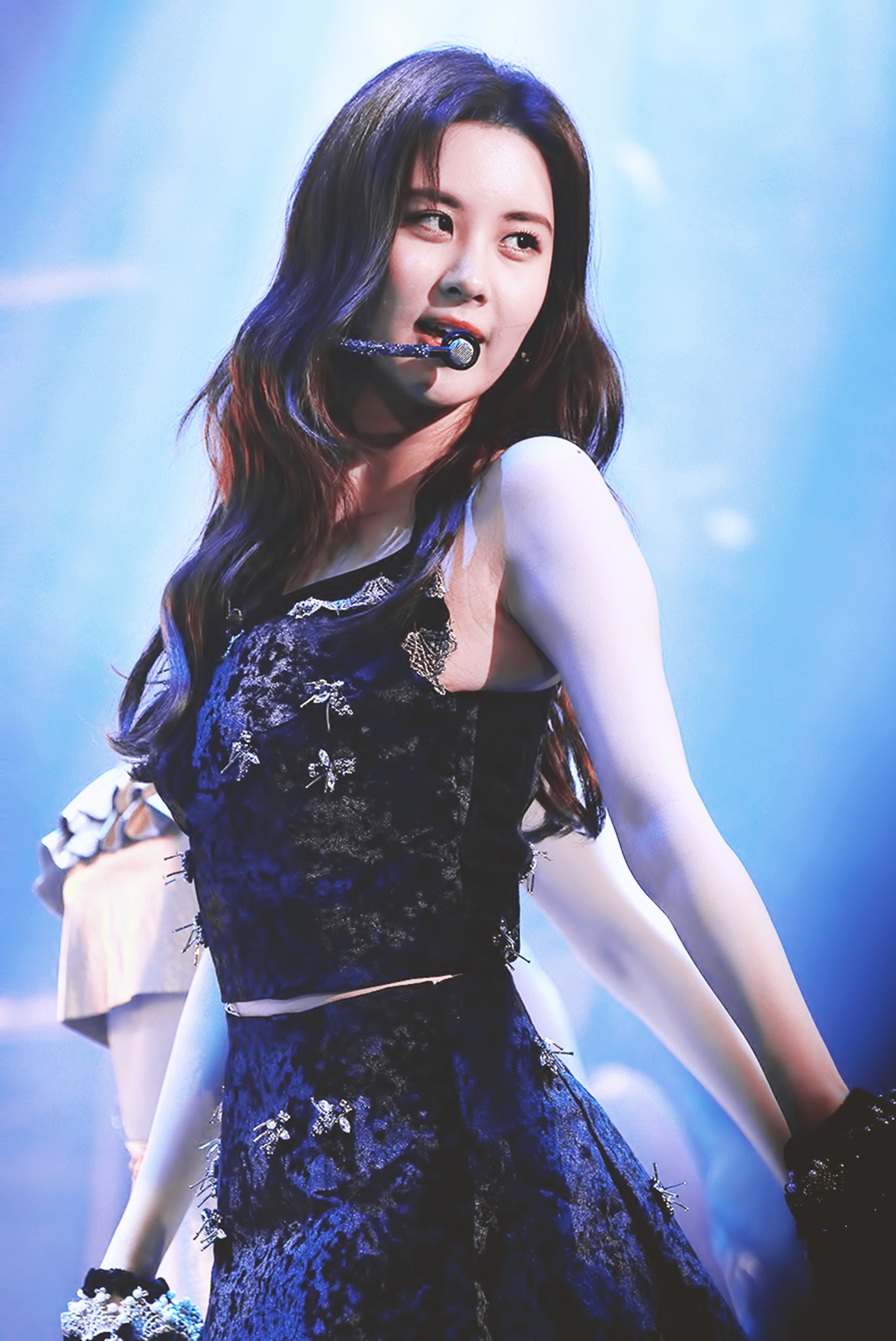 Seohyun performing at Lou Gehrig Hope Concert on March 25, 2017.